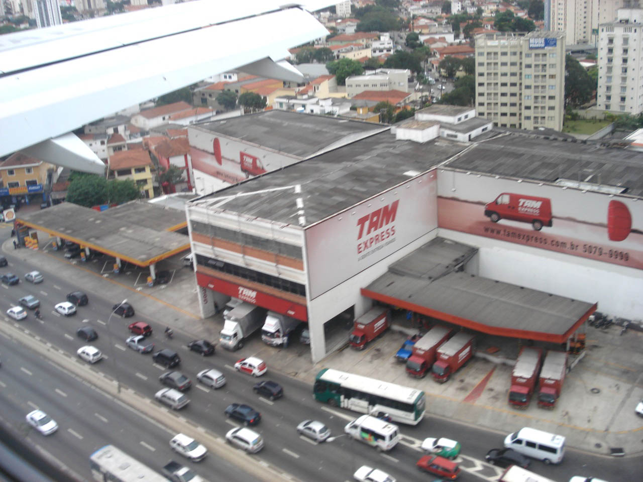 Aerial view of the TAM Express warehouse near São Paulo/Congonhas Airport, Brazil. This photo was taken about five months before TAM Airlines Flight 3054 crashed into the warehouse.